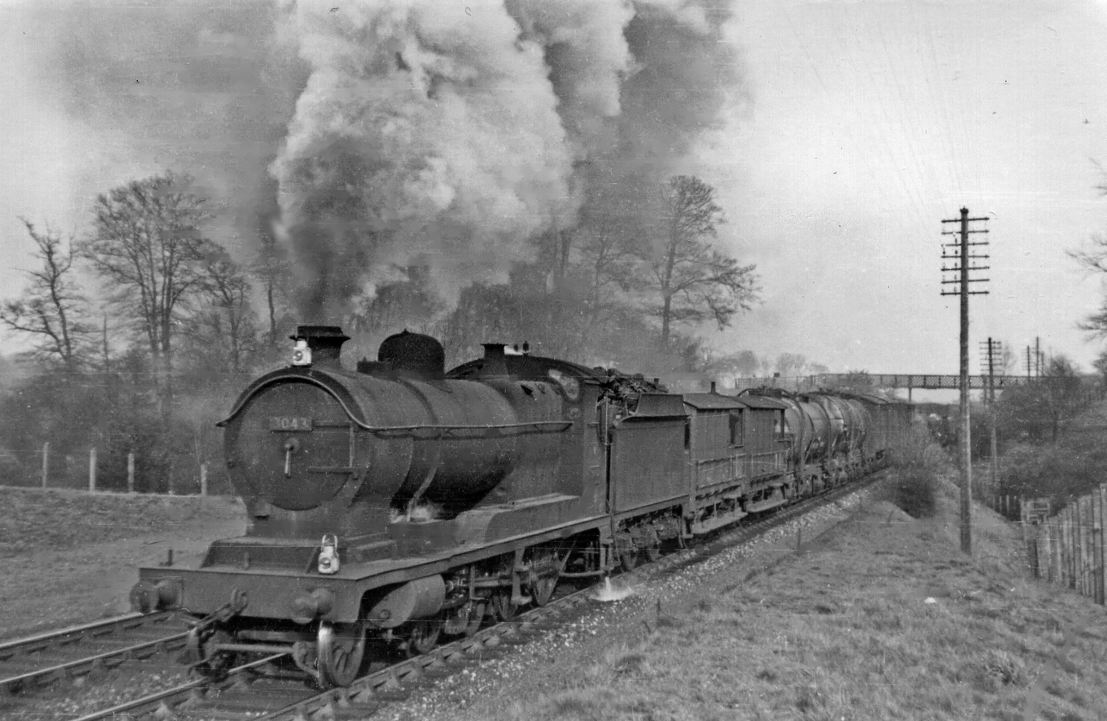 Down freight west of Seer Green. View eastward, towards London; ex-GW&GC Joint main lines, Paddington - Birmingham etc./Marylebone - Leicester - Sheffield. The Class F freight is headed by ex-GW No. 3043, one of the GC Robinson-design O4 2-8-0s built under Government contract for the military Railway Operation Division (ROD) in 1918-19 and acquired by the GWR in 1925: No. 3043 survived until 9/56. Note that the petrol tank-wagons are separated from the engine by two brake-vans.